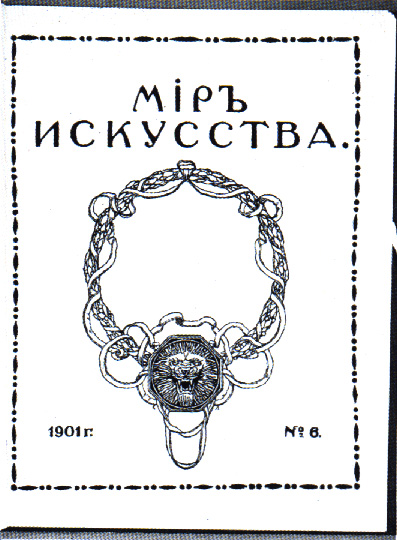 The cover page of "Mir Iskusstva" magazine published in the Russian Empire in 1898-1904